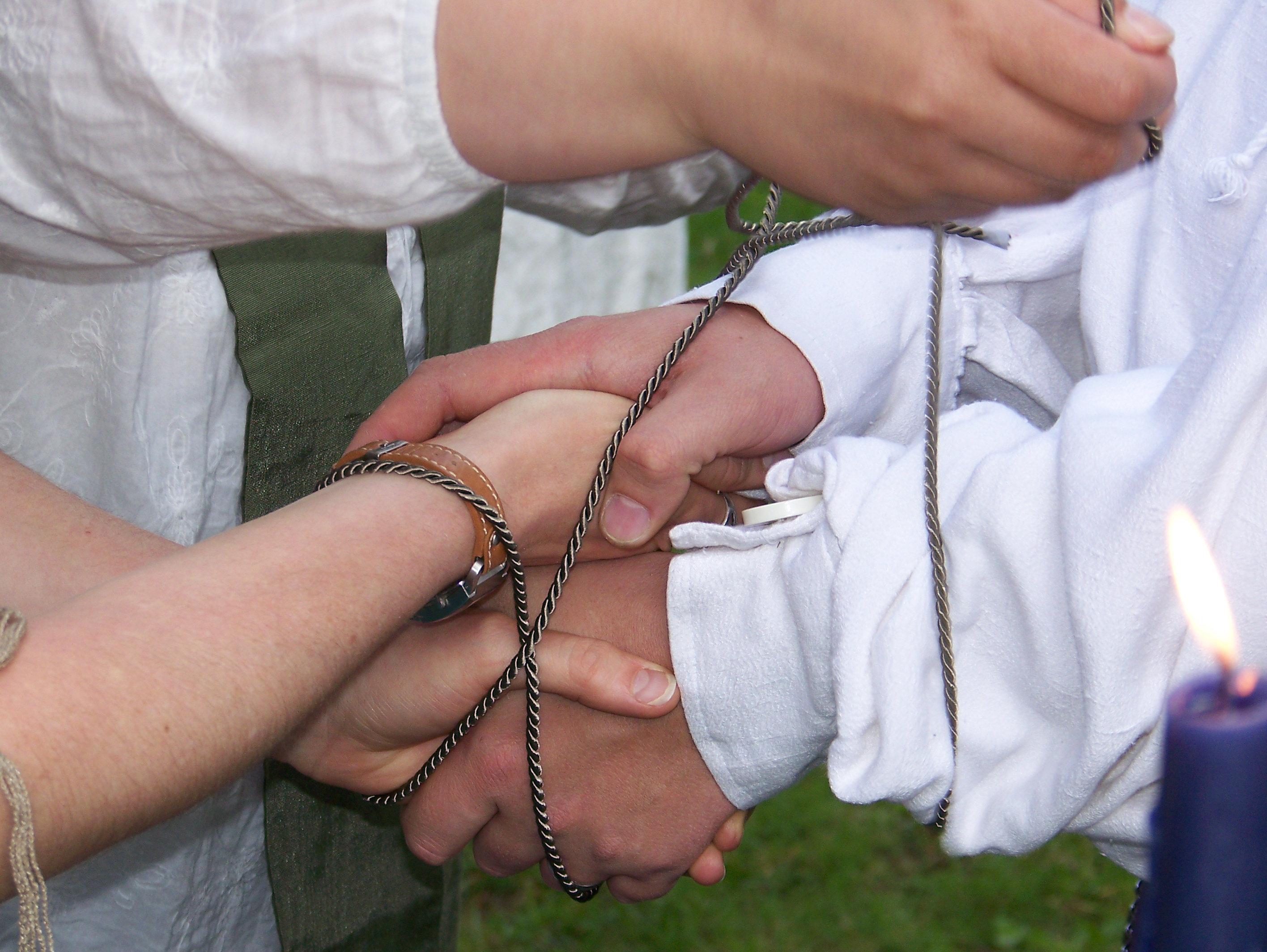 Closeup of the groom and bride hands being bound during a 2007 handfasting ceremony in British Columbia involving Ivannia and Jon.